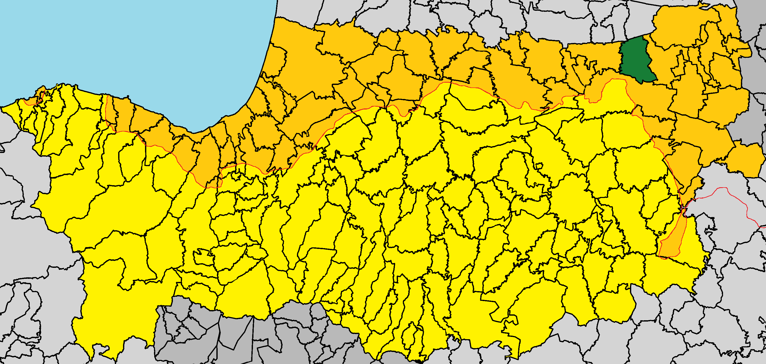 Mia Milia in Nicosia District (de jure).